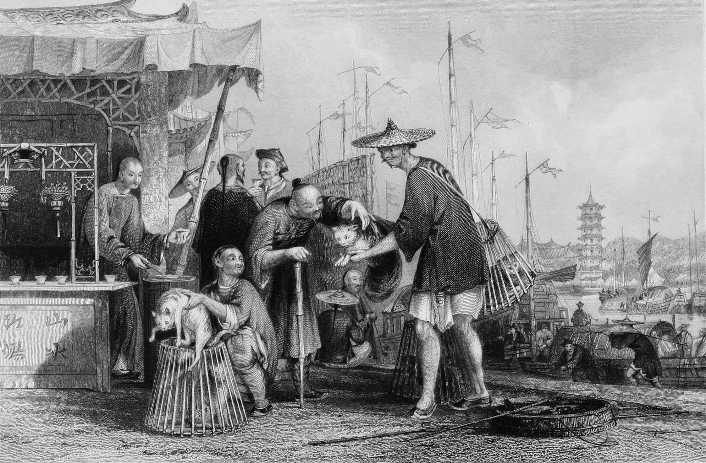 This is a painting from the book China, The Scenery, Architecture, and Social Habits of That Ancient Empire, first published in 1843. The author Thomas Allom painted it on the basis of sketches by Willian Alexander, who visited China in 1793.